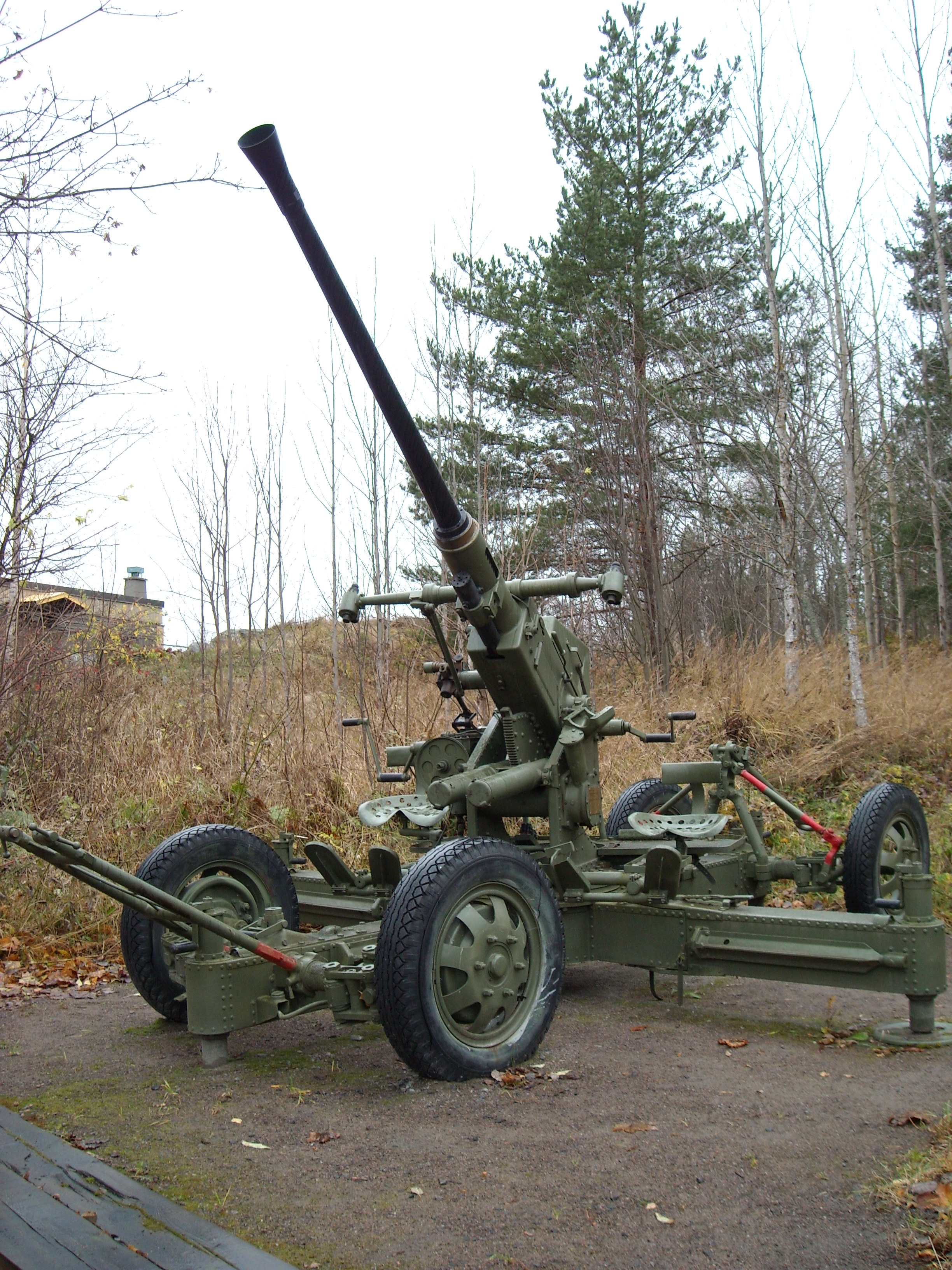 Swedish made 40 mm anti-aircraft cannon in Finland.